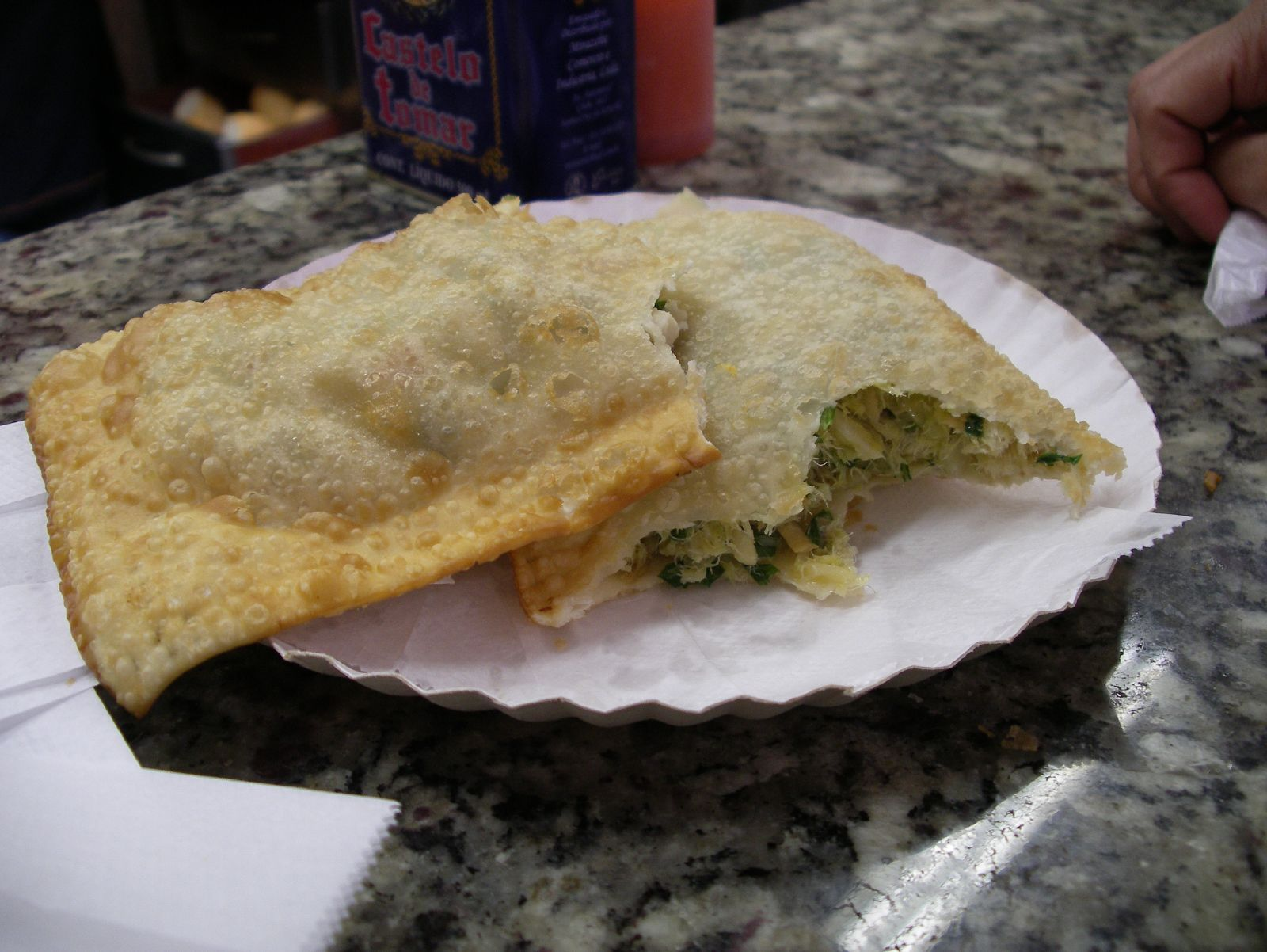 The ubiquitous pastel de bacalhau: a deep-fried pastry filled with flaked cod. We also got a pastel with heart-of-palm.